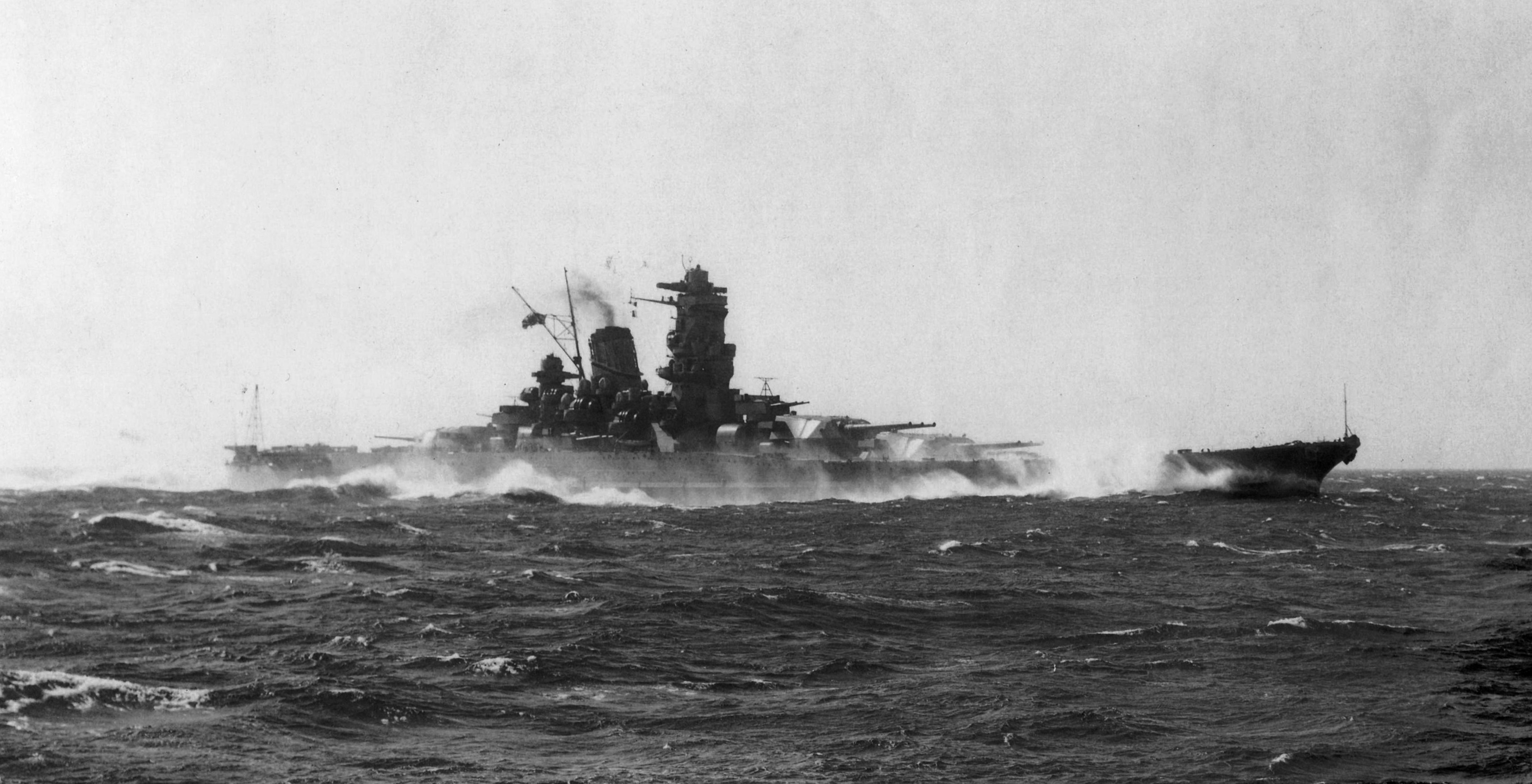 Yamato running machinery trials off Bungo Strait (outside Sukumo Bay) on 20 October 1941